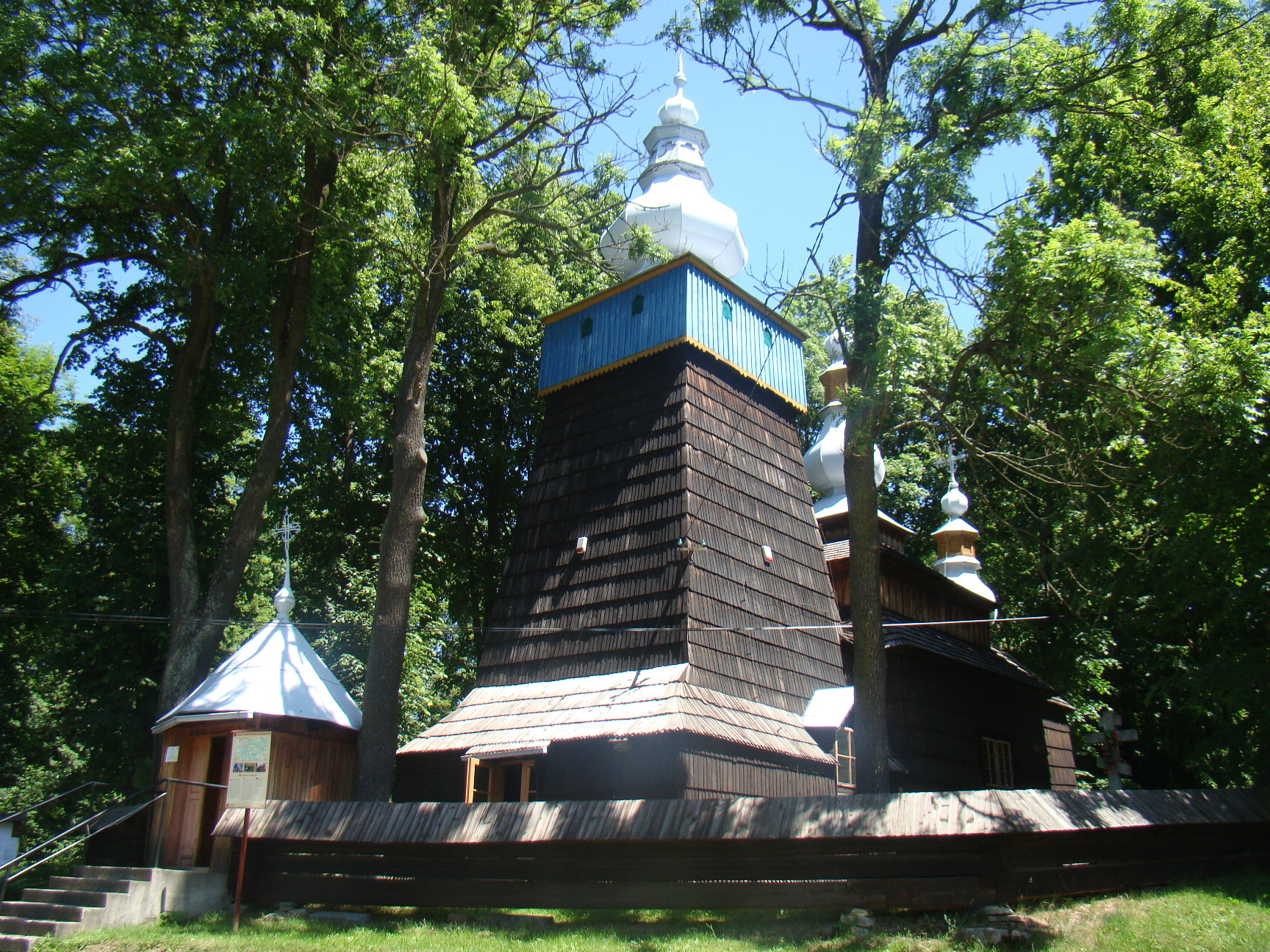 Church of the Pokrov in Bielanka, Poland